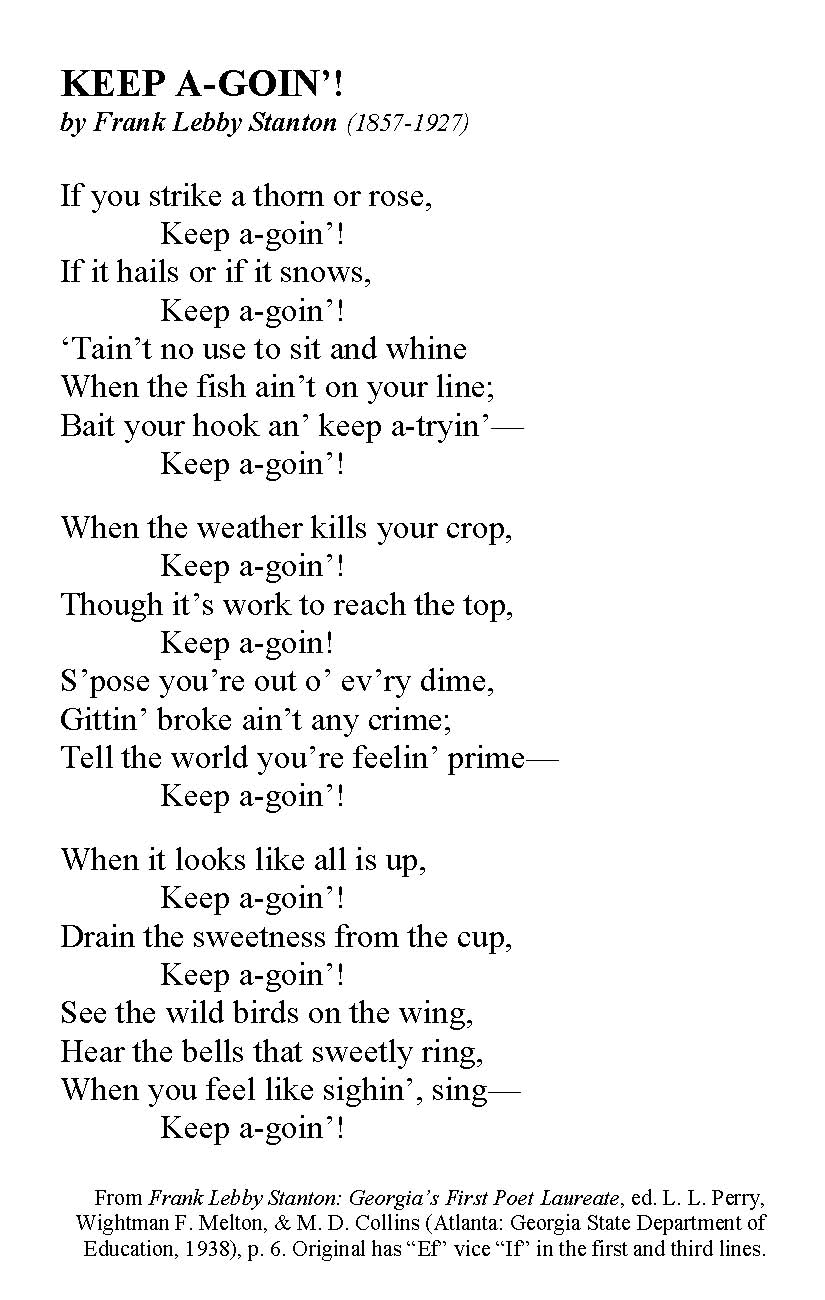 "Keep A-Goin'" poem by Frank Lebby Stanton